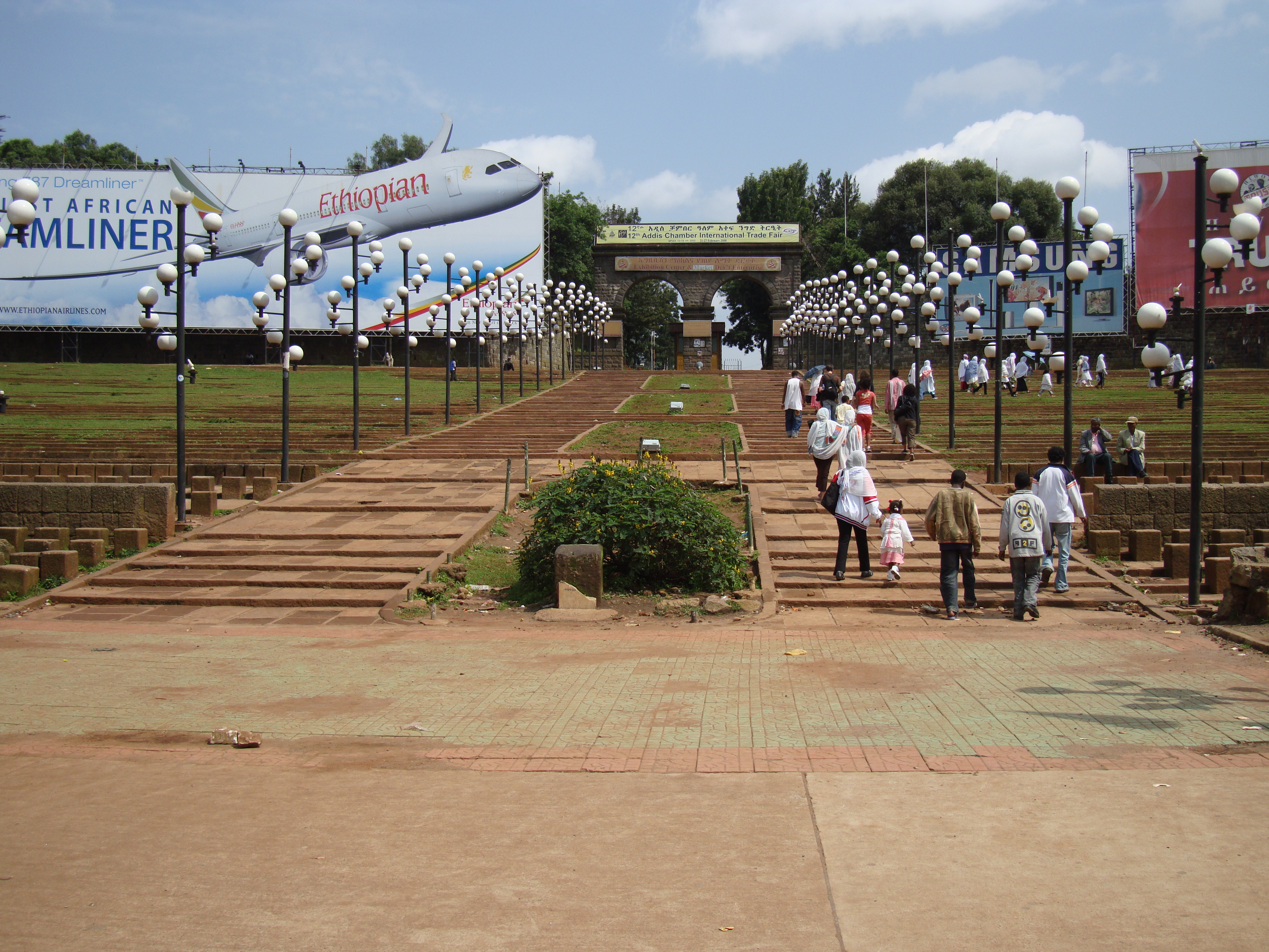 Meskel Adebabay, Addis Abeba, Ethiopia